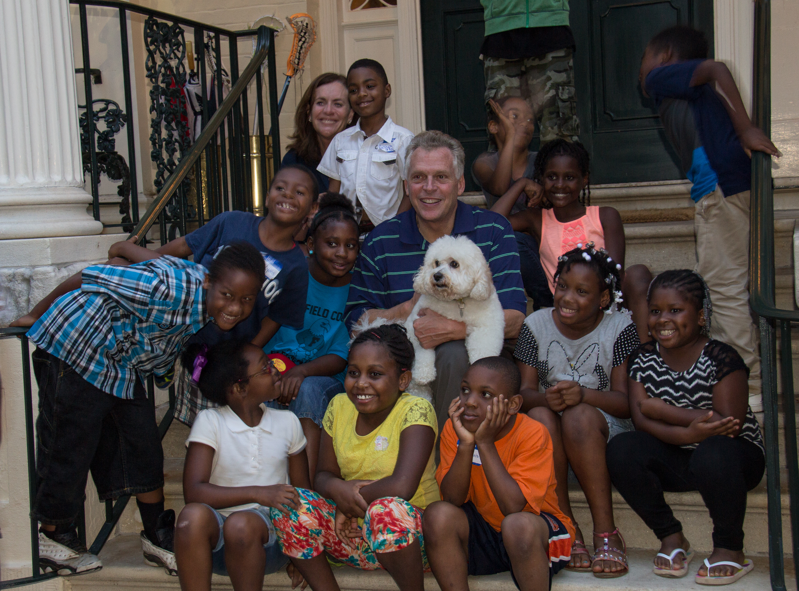 Virginia State Parks Inaugural Capital Campout held at Brown's Island and the Governor's mansion June 25 & 26, 2015.